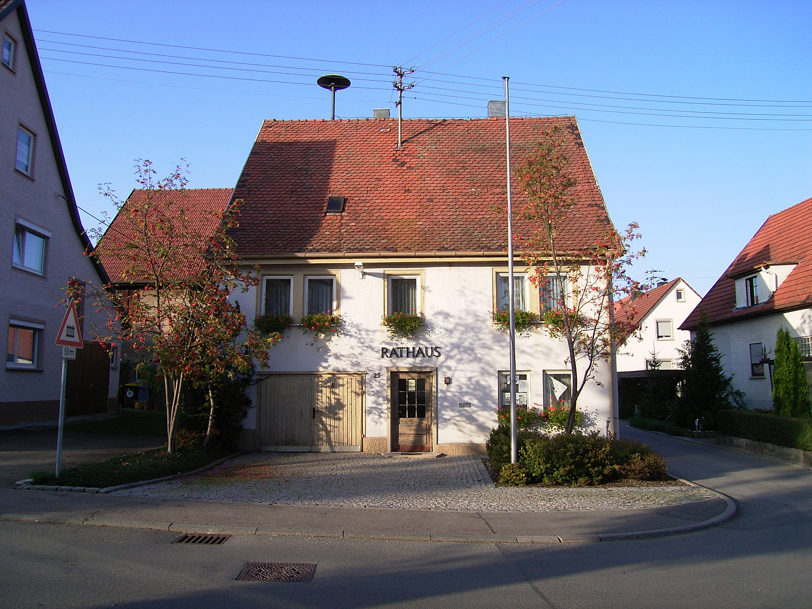 The Town Hall of Weilheim, a Part of the Town Rietheim-Weilheim